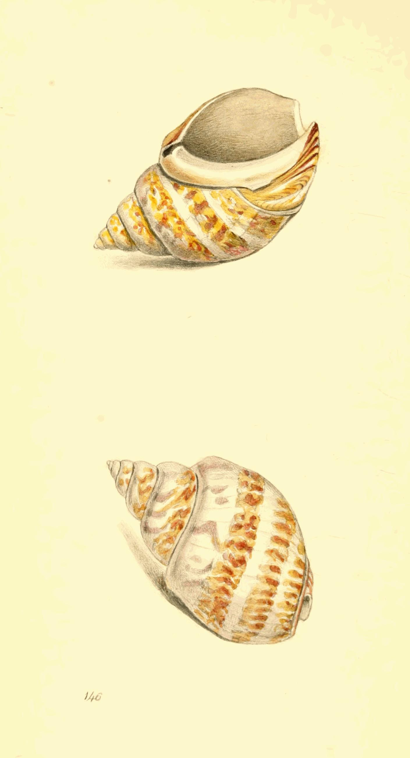 Plate 146. Eburna Pacifica. South Sea Eburna. Modern accepted name (2012) is Babylonia lutosa[1].